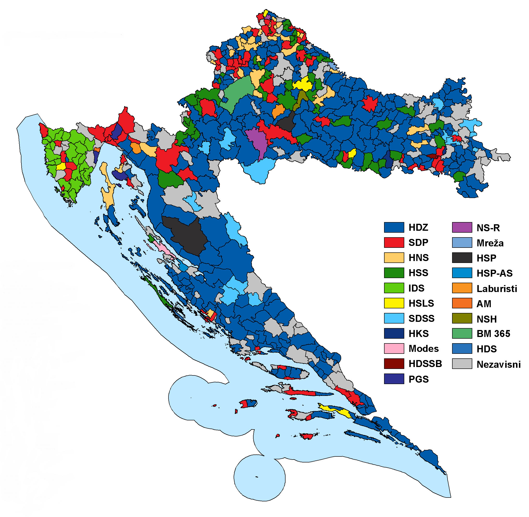 2017 local election results in Croatia, showing the candidate's party that won each municipality